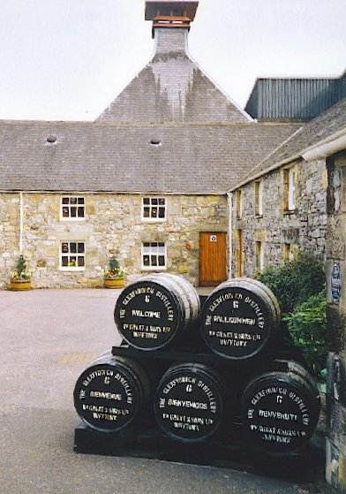 Glenfiddich Distillery, Dufftown. Whisky barrels posed in distillery courtyard. Note the distinctive pagoda cap to release the aromas!